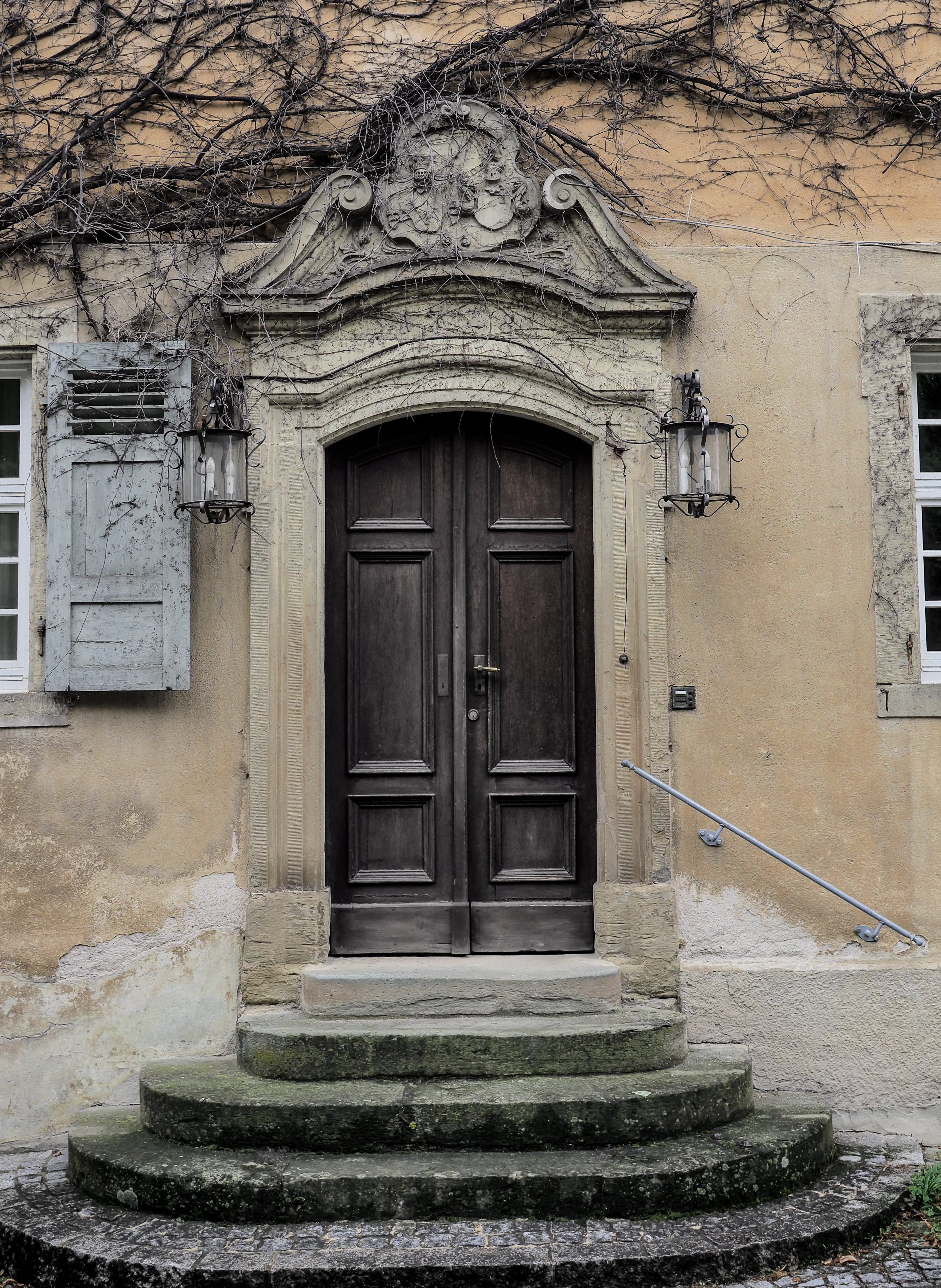 Schloss Gärtringen. Wikidata has entry Q15844460 with data related to this item.